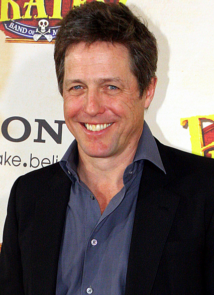 Hugh Grant: The Pirates, Band of Misfits 2012.